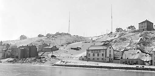 Radio station in Sjónarhæð, Akureyri in 1928.